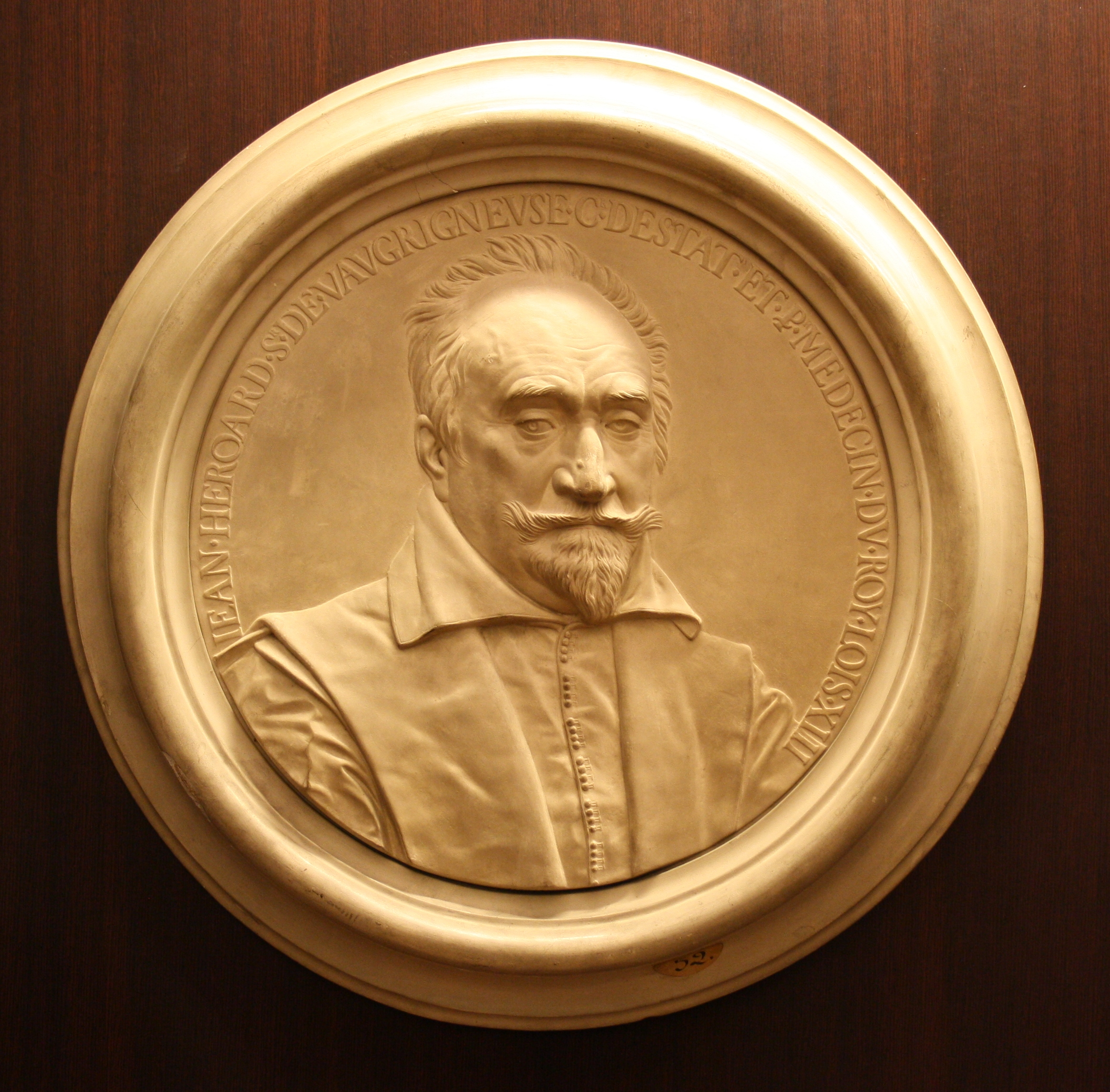 Jean Héroard in the "hôtel de Magny", a building that is located in the Jardin des Plantes in Paris, France. That medallion in Paris is a plaster cast by Adrien Blanchet. It is based on the original bronze medallion made by Guillaume Dupré (1575-1640) and that is preserved at the Kunsthistorisches Museum in Vienna, Austria.